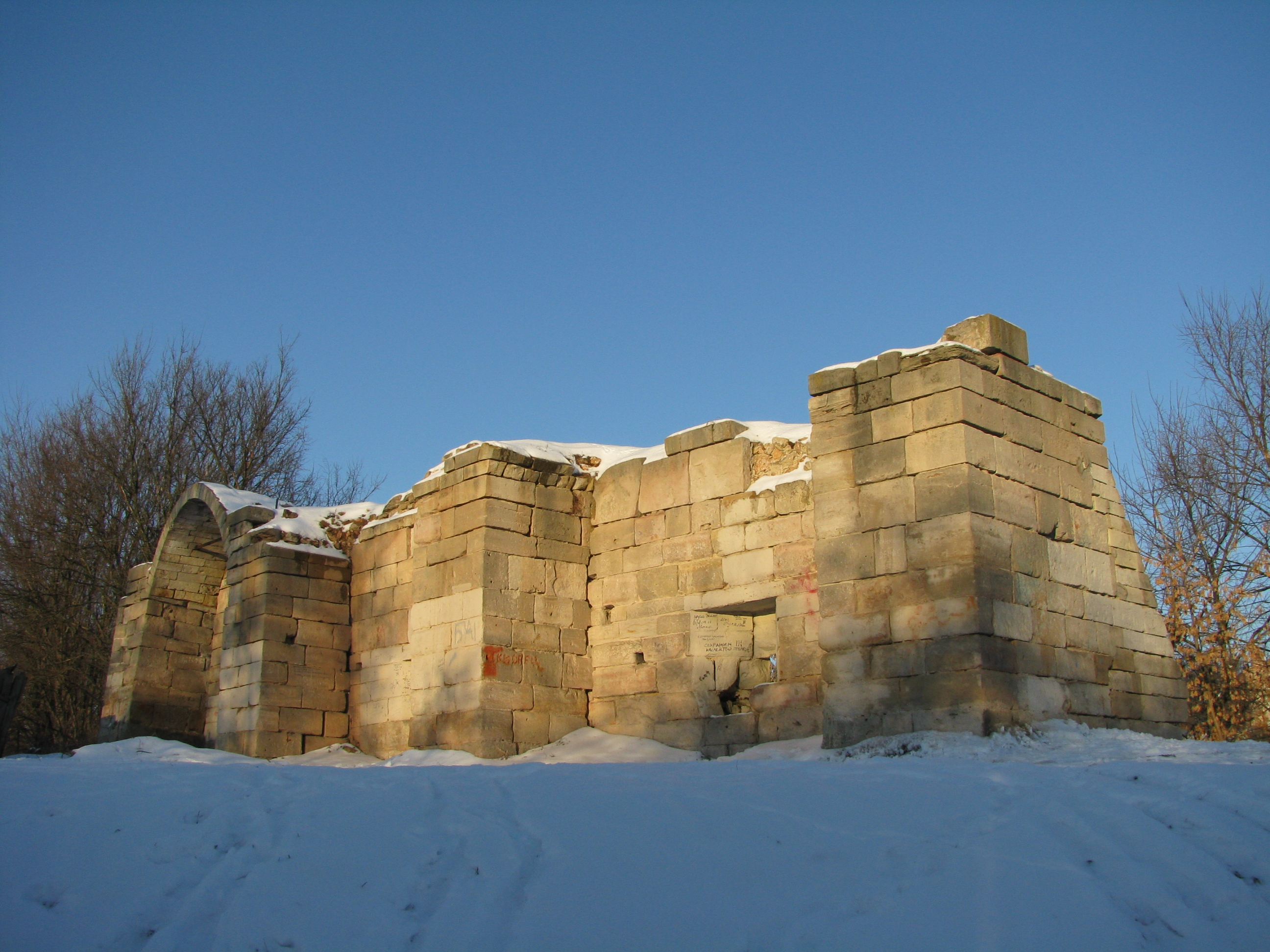 Serpukhov, Kremlin, Fragment of Wall (1556), Federal Landmark